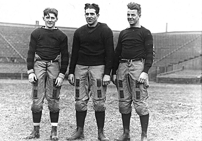 The Penn Quakers football backfield in 1916: quarterback Bert Bell (left), halfback Ben Derr (center), and fullback Joe Berry.